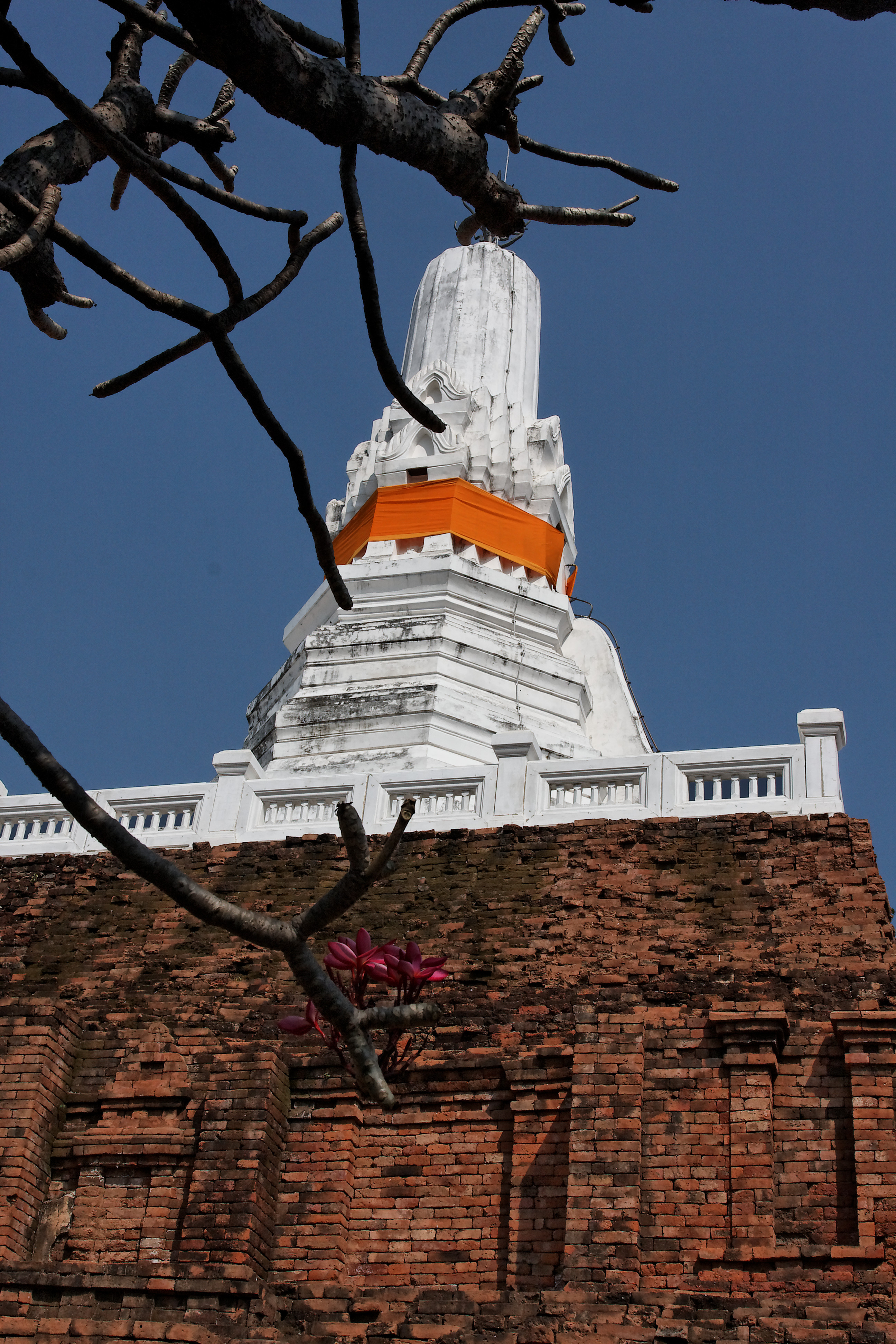 Chedi Phra Pathon is a Dvaravati temple in Nakhon Pathom, Thailand